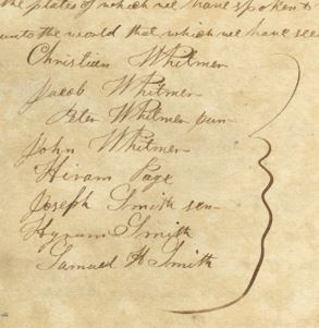 Photograph of the signatures of the Eight Witnesses to the Book of Mormon: Christian Whitmer Jacob Whitmer Peter Whitmer, Jun. John Whitmer Hiram Page Joseph Smith, Sen. Hyrum Smith Samuel H. Smith.